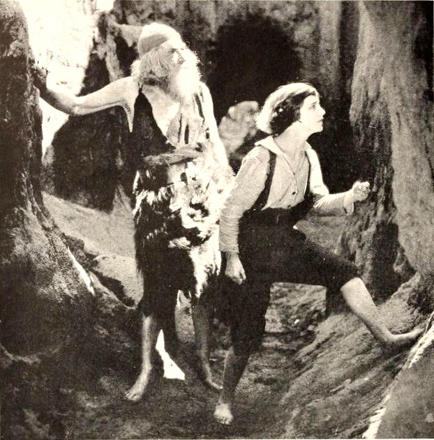 Still from the American silent film Treasure Island (1920) with Shirley Mason as Jim, published in an adaptation of its script starting at page 59 of the February 1920 Shadowlands. Magazine caption for the still on page 62: "Jim assimilated the fact that Ben Gunn had been on the Island for a period of years."